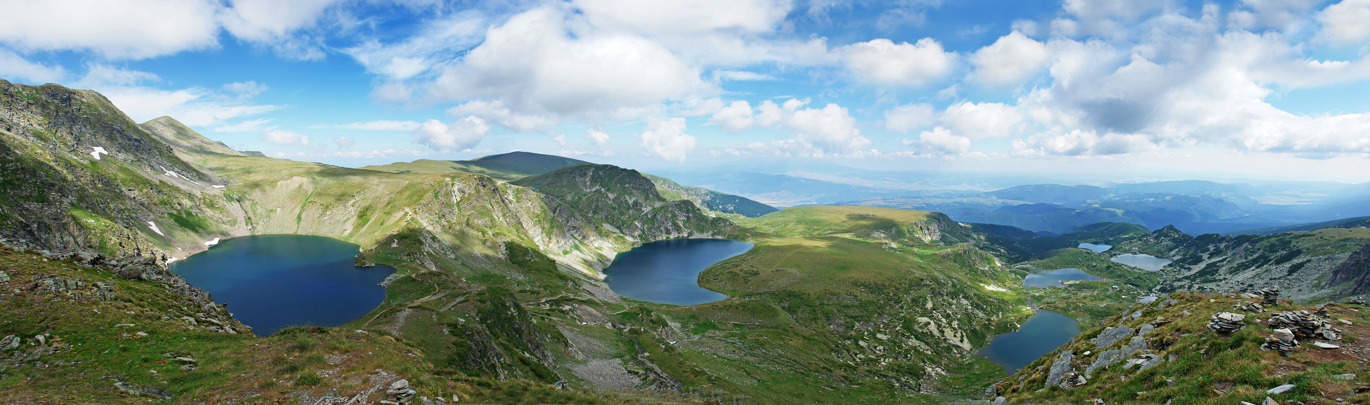 Panoramic photo of the Seven Rila Lakes in the Rila mountains of Bulgaria